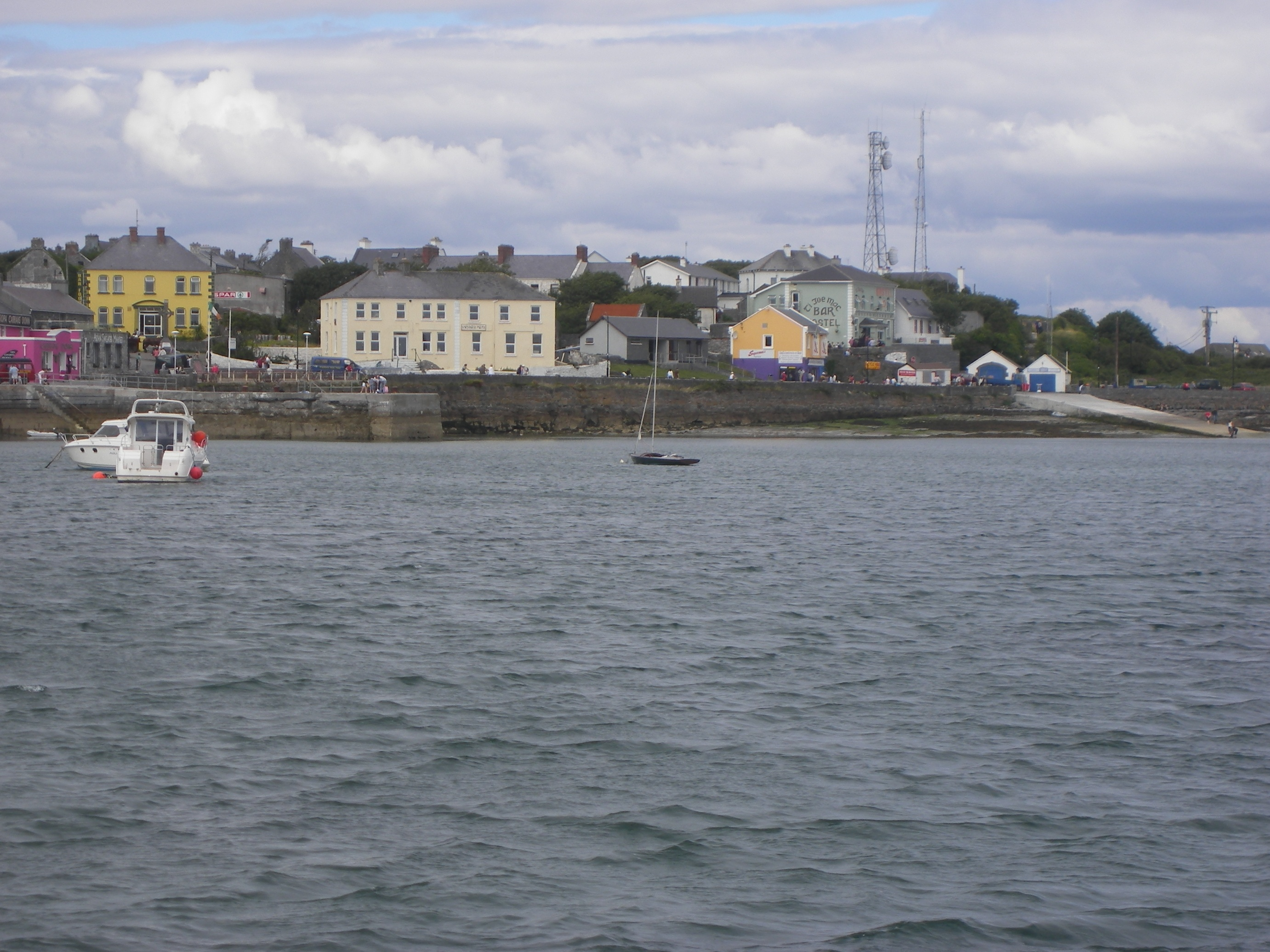 Inishmore